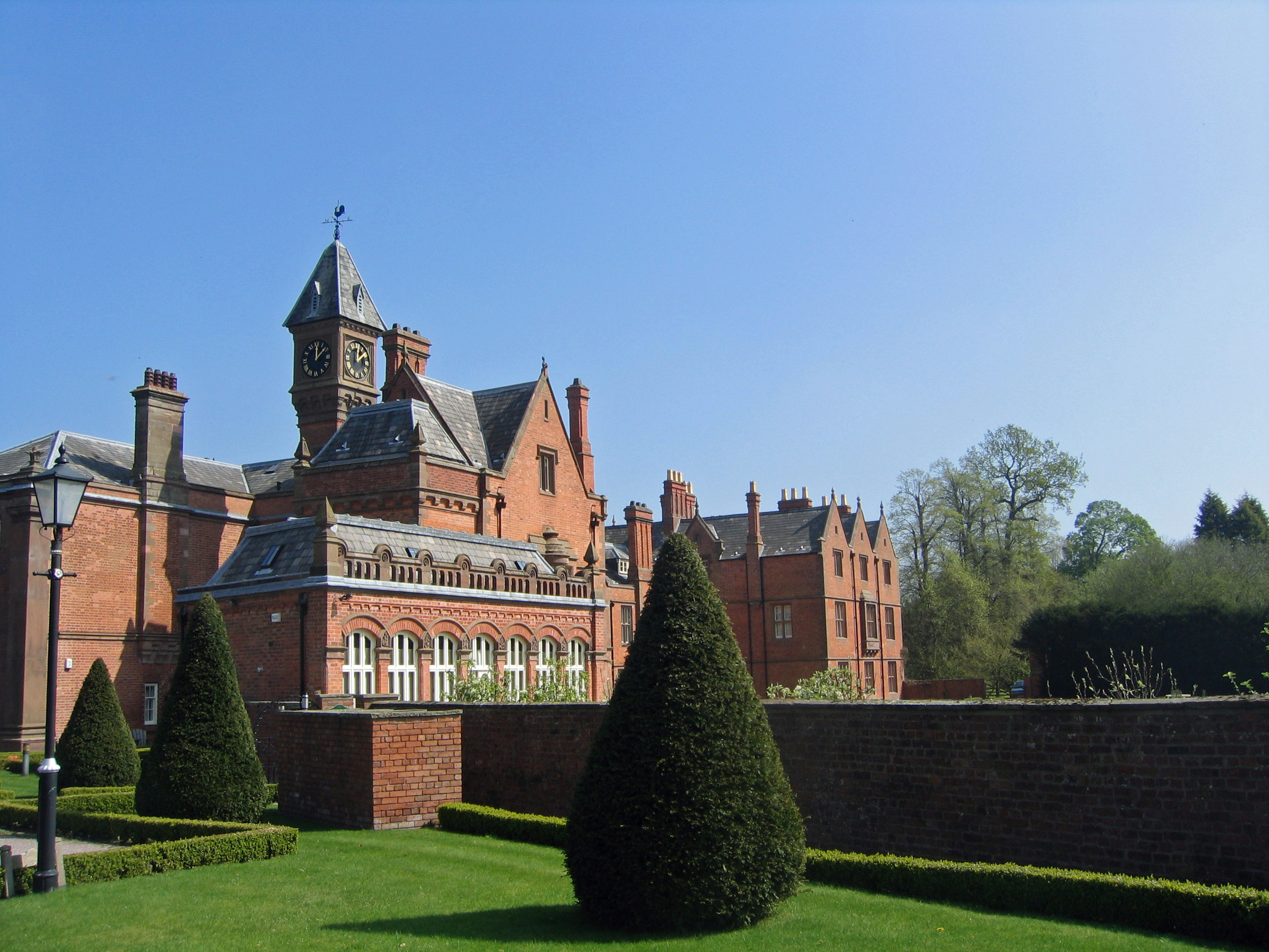 Photograph of Vale Royal Abbey showing the wing designed by John Douglas